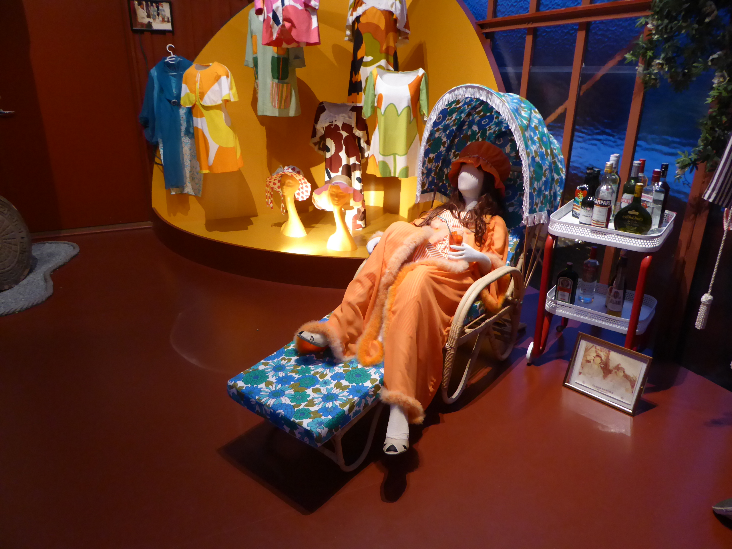 The exhibition Olsen-banden vender hjem at Nordisk Film in Copenhagen with reconstructions of film sets used in the Olsen-banden films. The character Yvonne from a scene in the film Olsen-banden på sporet.